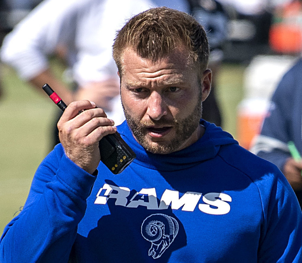 Los Angeles Rams head coach, Sean McVay, at a joint practice with the Oakland Raiders during the 2019 training camp.